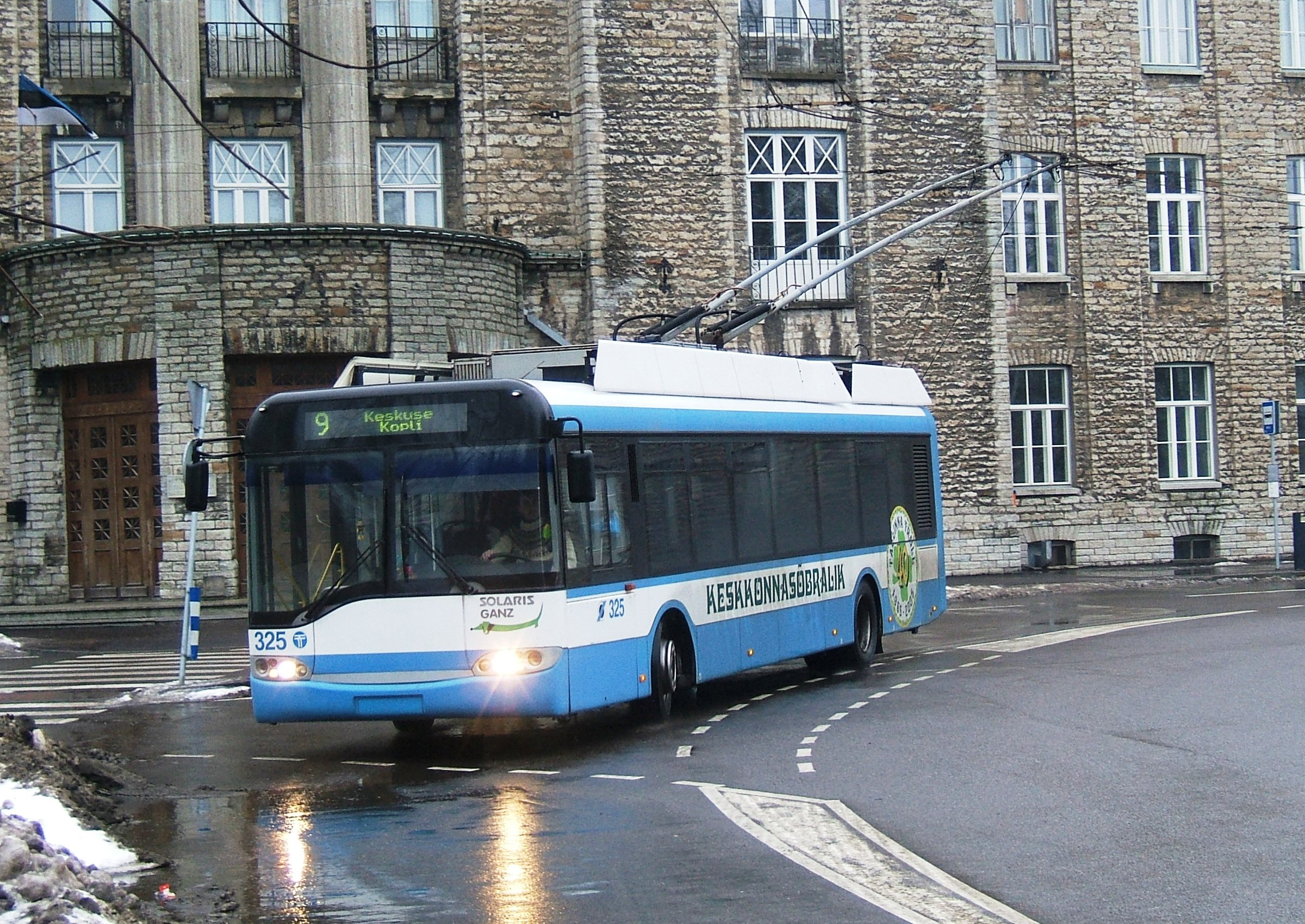 Ganz-Solaris Trollino 12 trolleybus in Tallinn. Year built 2004.